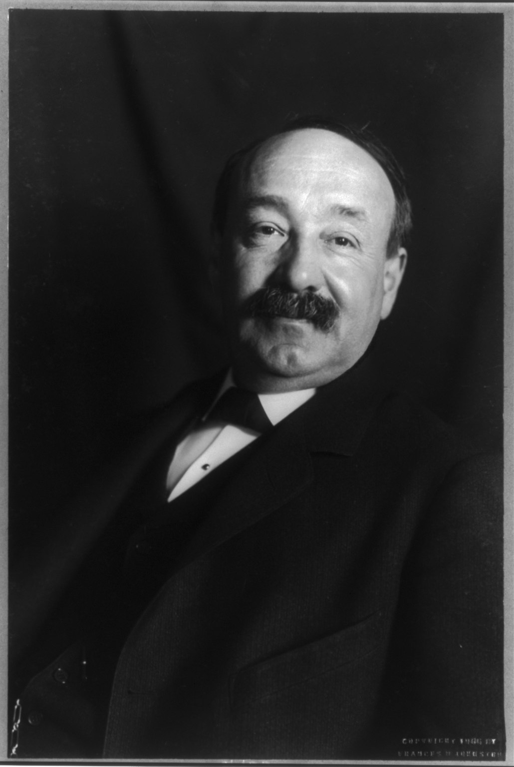 Title: Charles Joseph Bonaparte, 1851-1921 Abstract/medium: 1 photographic print.